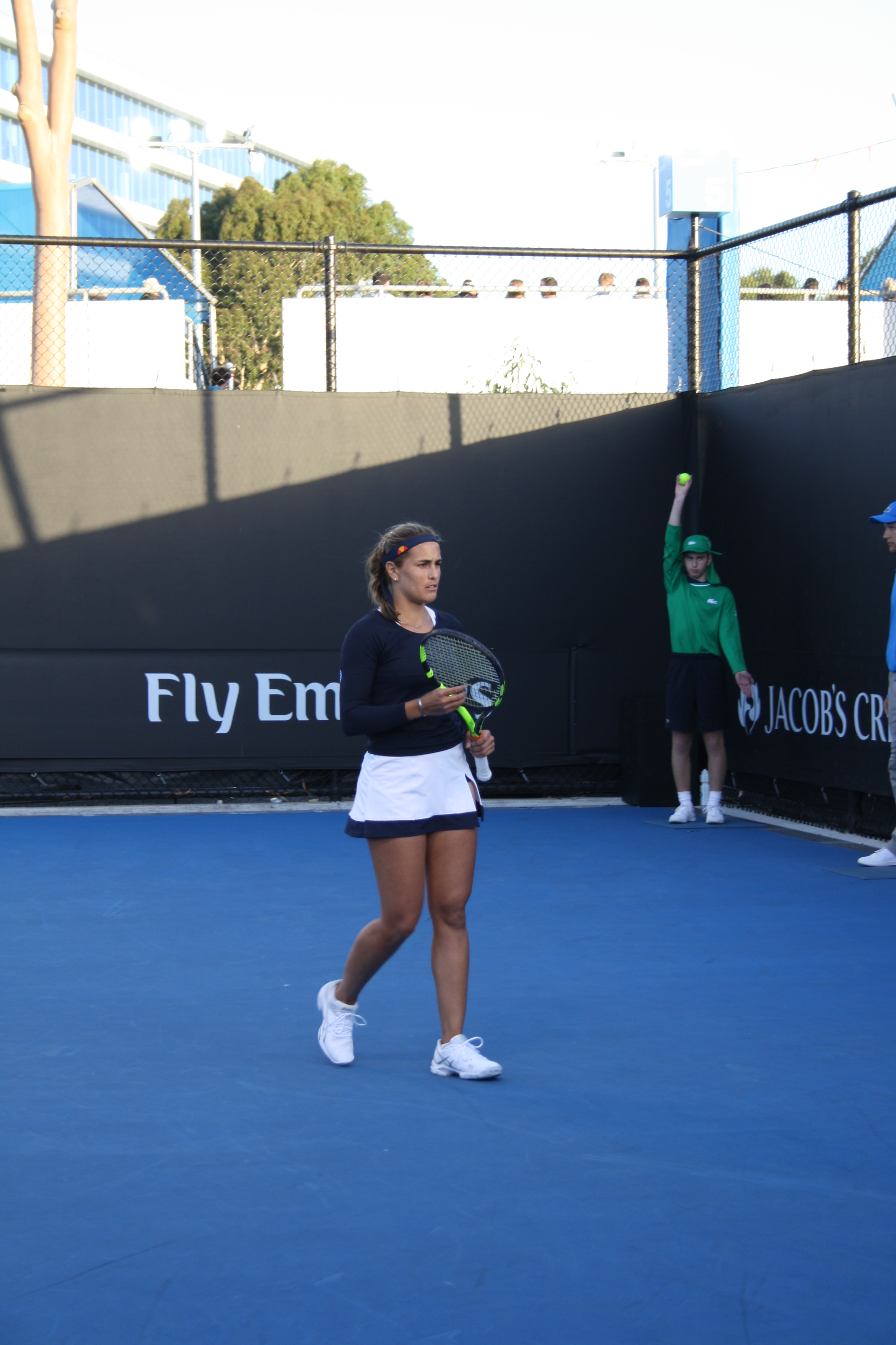 Monica Puig, January 2017